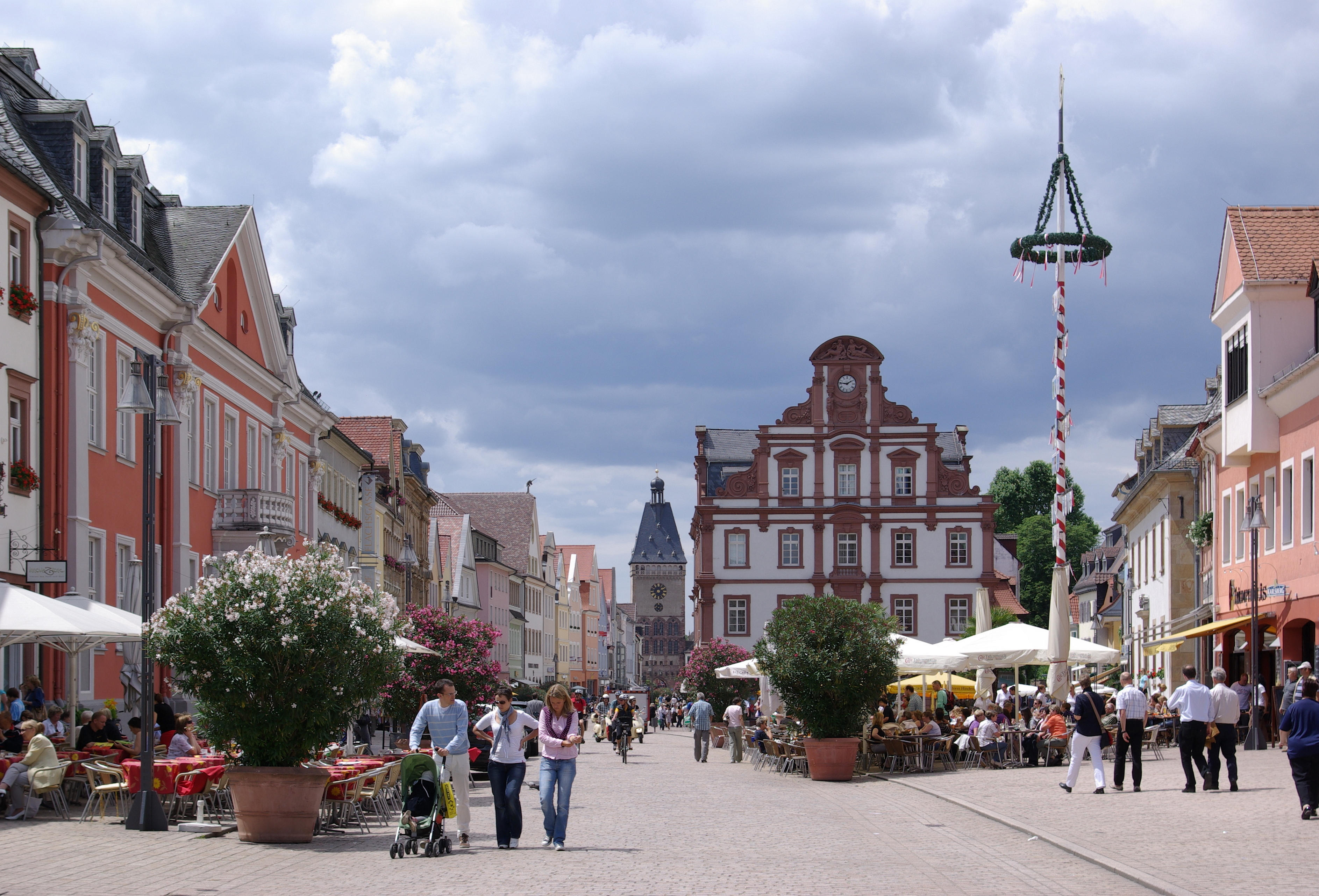 Germany, Speyer, Maximilian street